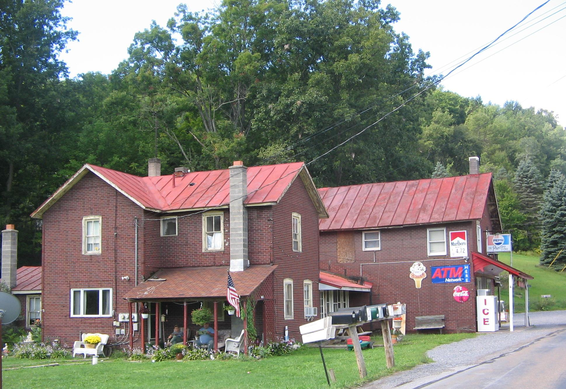 General Store in village of Proctor in the Plunketts Creek watershed, in Plunketts Creek Township, Pennsylvania, United States